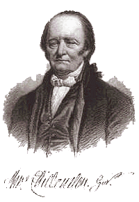 Engraving of Thomas Chittenden, first governor of Vermont. (some white space removed)